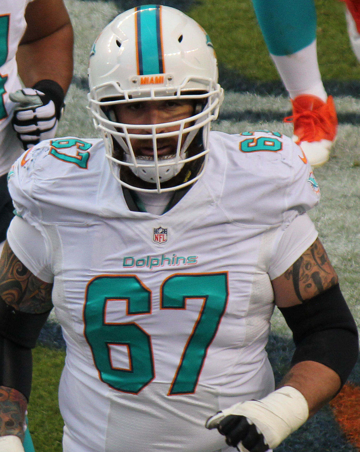 Daryn Colledge, a player on the National Football League.